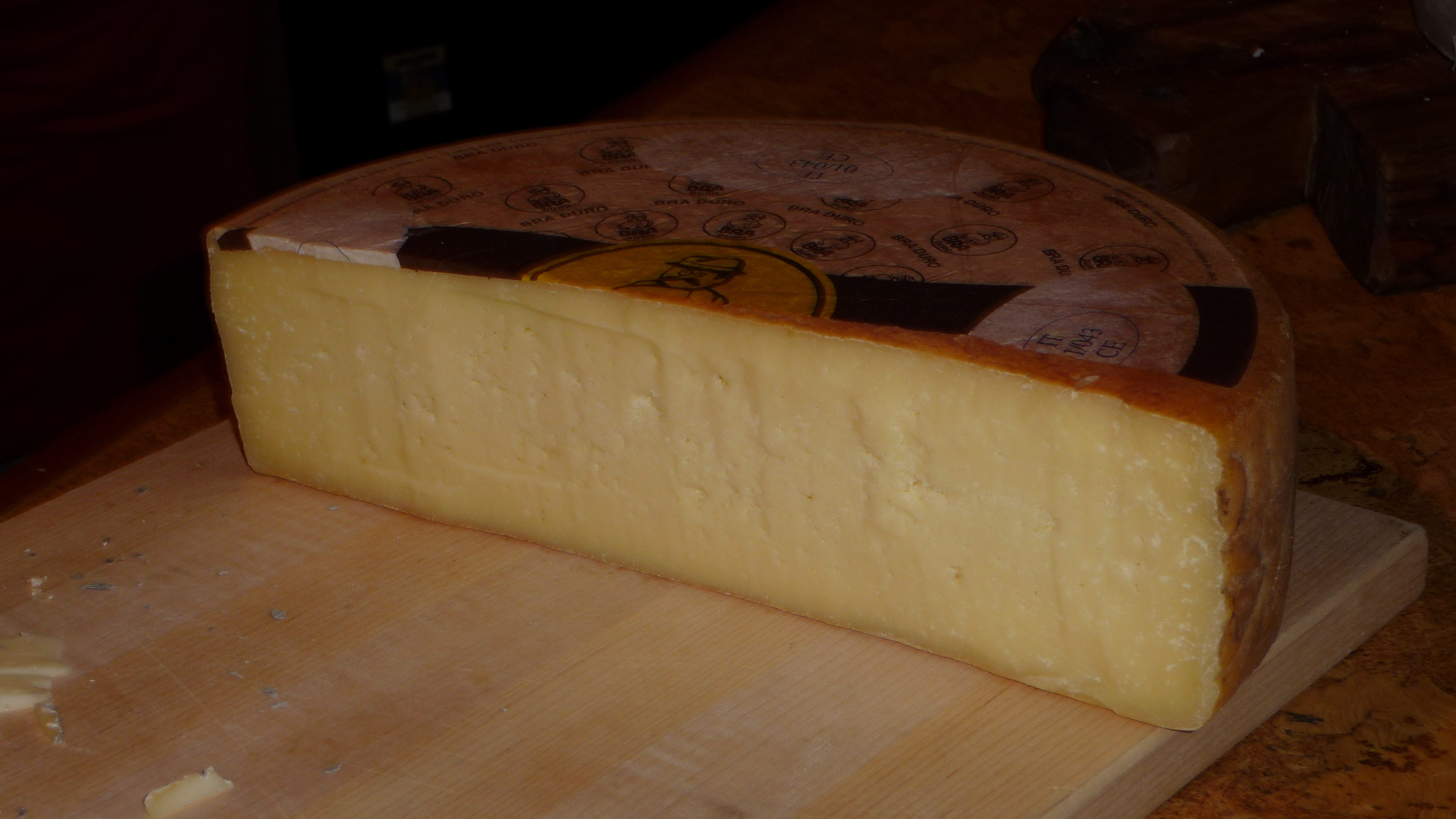 Bra Duro cheese: rough or rugged (Duro) outer rind. From the mountains and valleys of Cuneo in Piemonte.